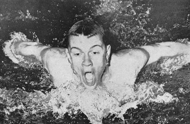 Photograph of Dave Gillanders NCAA butterfly champion